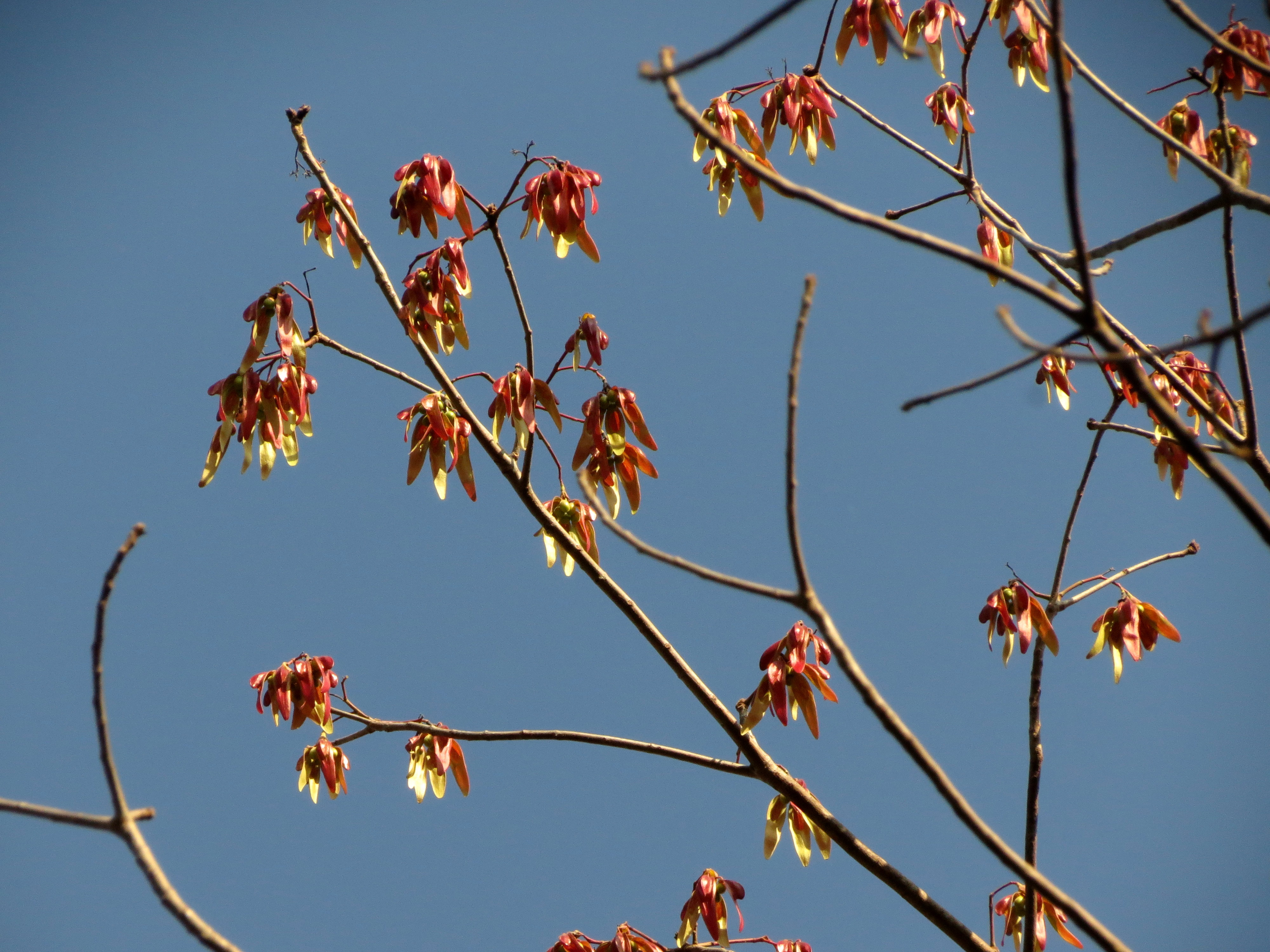 Pterocymbium tinctorium seen in Ramakrishna ashram Shivanahalli, Bangalore